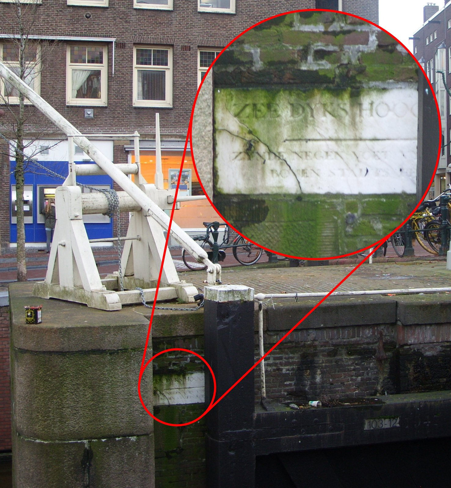 Last remaining in situ marker stone of "Amsterdam Peil" (Amsterdam Waterlevel) dated 1684, at Eenhoornsluis, Korte Prinsengracht, Amsterdam, The Netherlands Text (translated from Dutch): SEA DIKE HEIGHT - - - - - - - - - - being nine feet and and five inches (268 cm) above city waterlevel